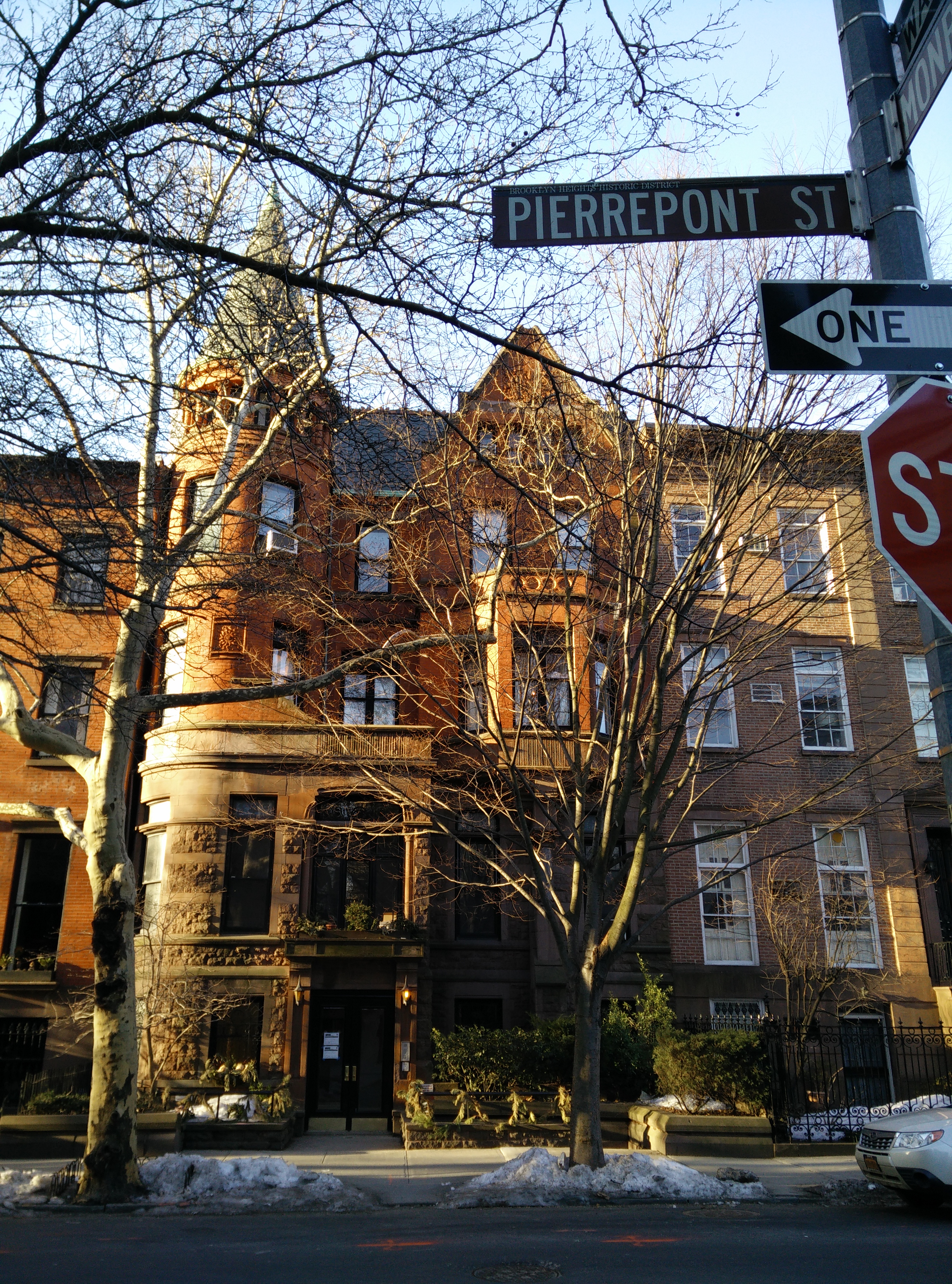 114 Pierrepont Street, formerly the Brooklyn Women's Club.